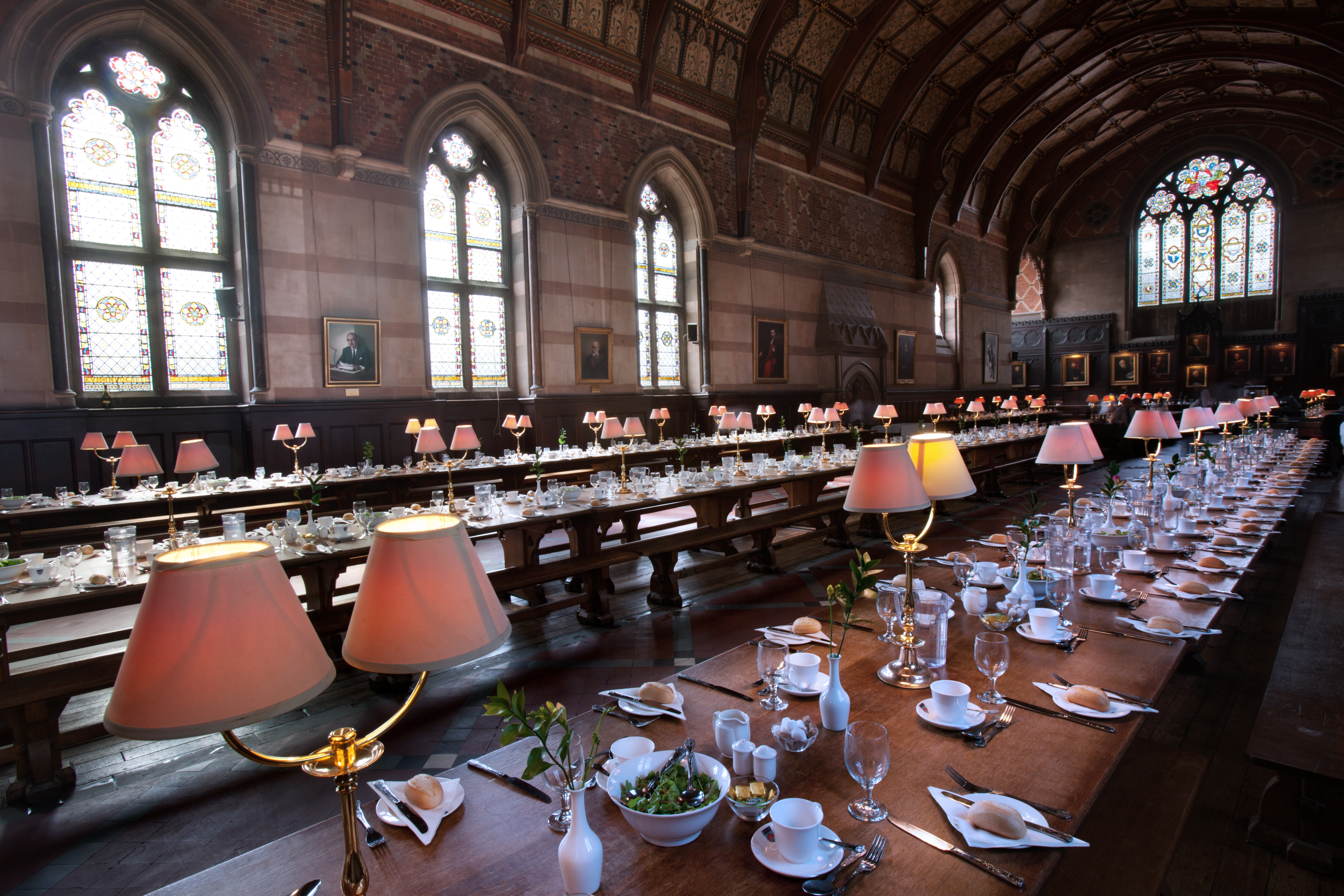 Main hall, Keble College, Oxford, UK. In the Endevour episode "Home" Morse can be seen walking through this hall.